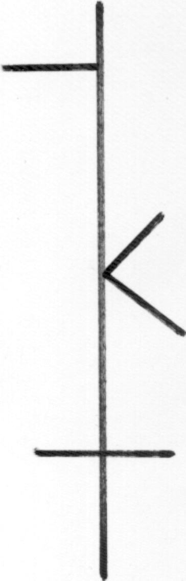 Crossings in motorcycle orienteering in the Netherlands.